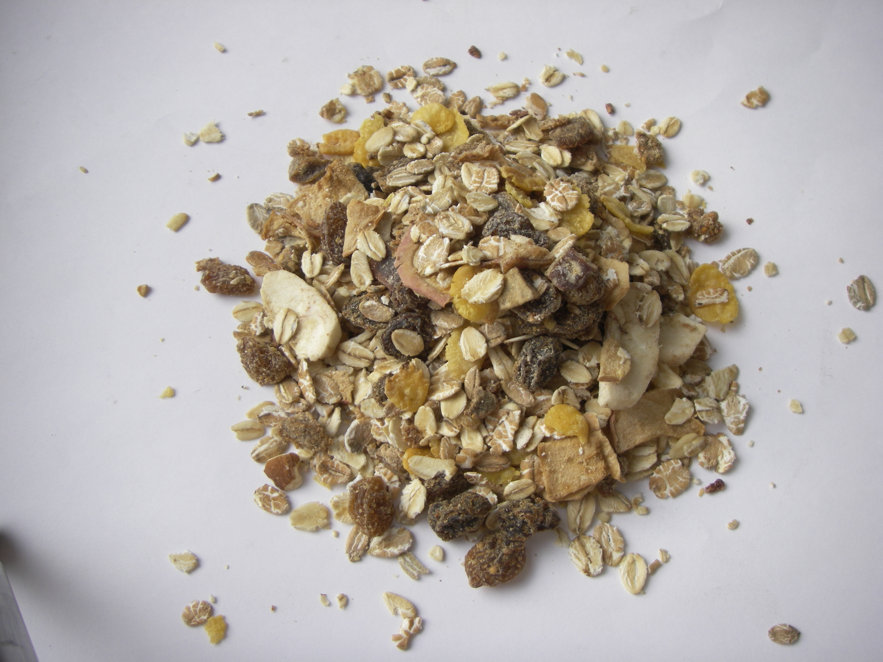 Muesli made of rolled oats, rolled wheat, corn flakes and dried fruits